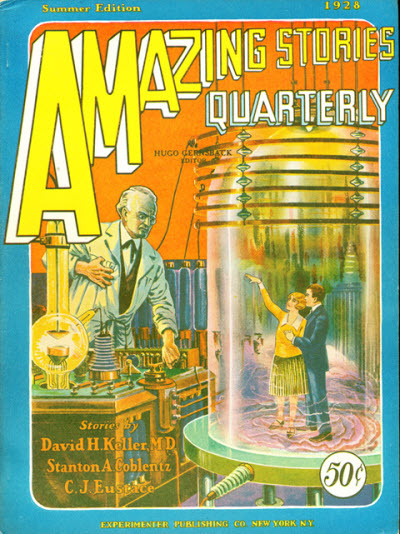 Cover, Amazing Stories Quarterly, summer 1928